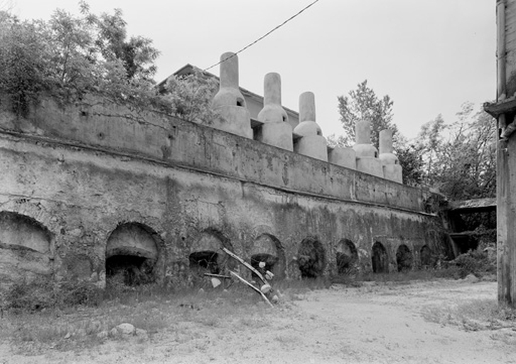 Image of the bottle ovens of the former and first Vicat cement plant located in Genevrey (Vif, Isère)